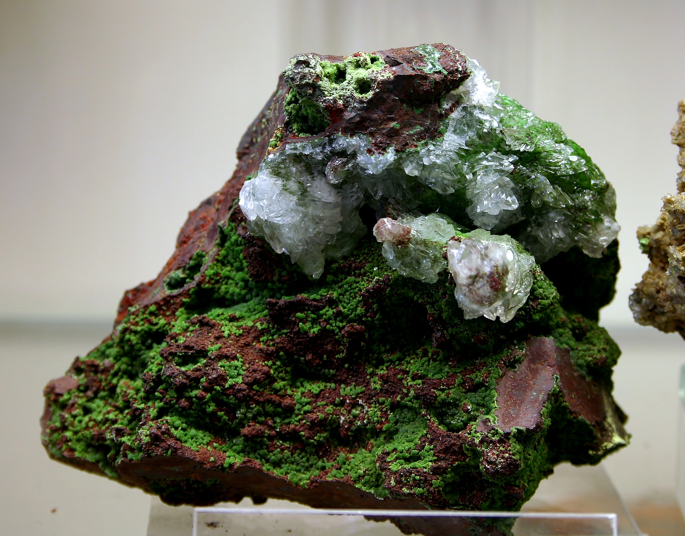 Conichalcite. Locality: Zacatecas, Mexico. Exposed in the Mineralogical Museum, Bonn, Germany